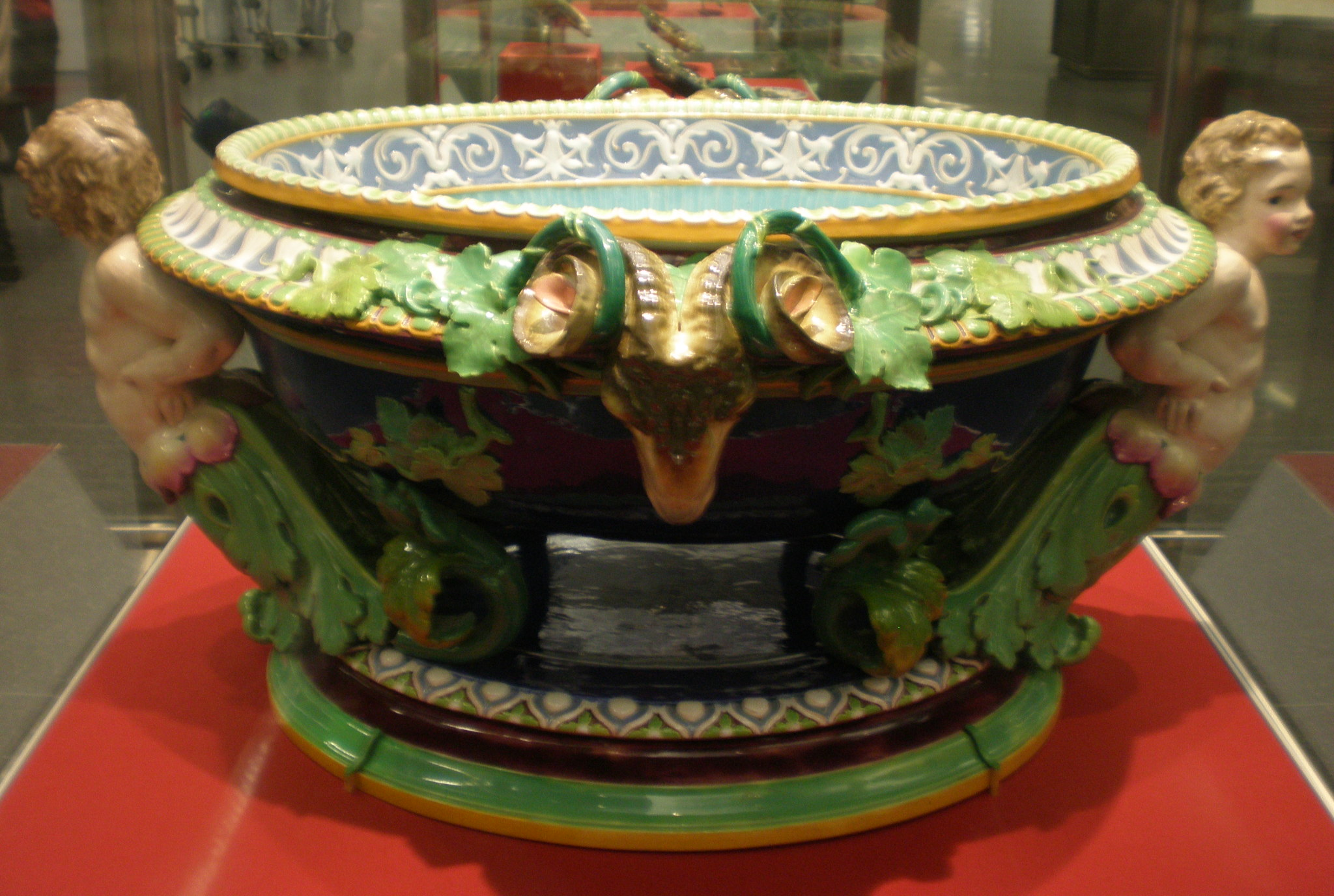 Wine cistern, manufactured by Minton & Co., Stoke-on-Trent, England, ca. 1850. Private collection, on display at the time temporarily in the international terminal of San Francisco International Airport (SFO).